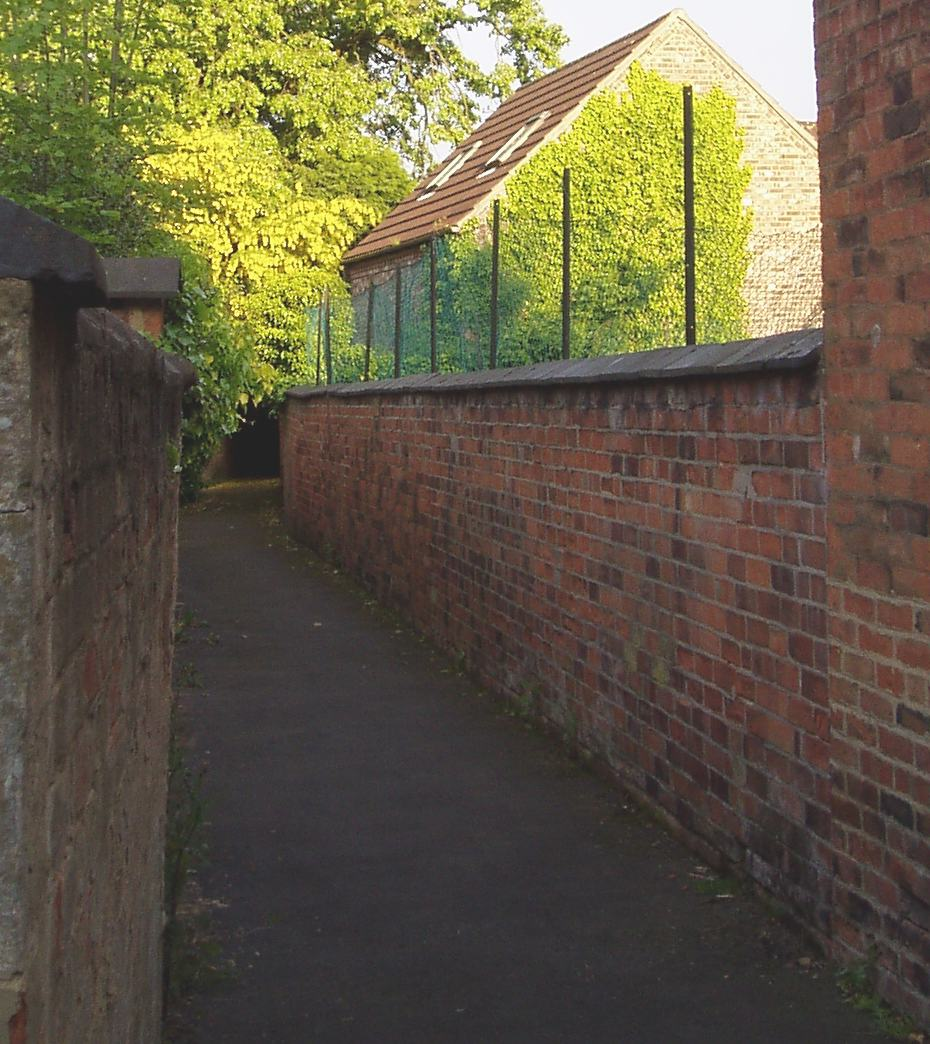 Gitty between old buildings in Ockbrook, Derbyshire, England.